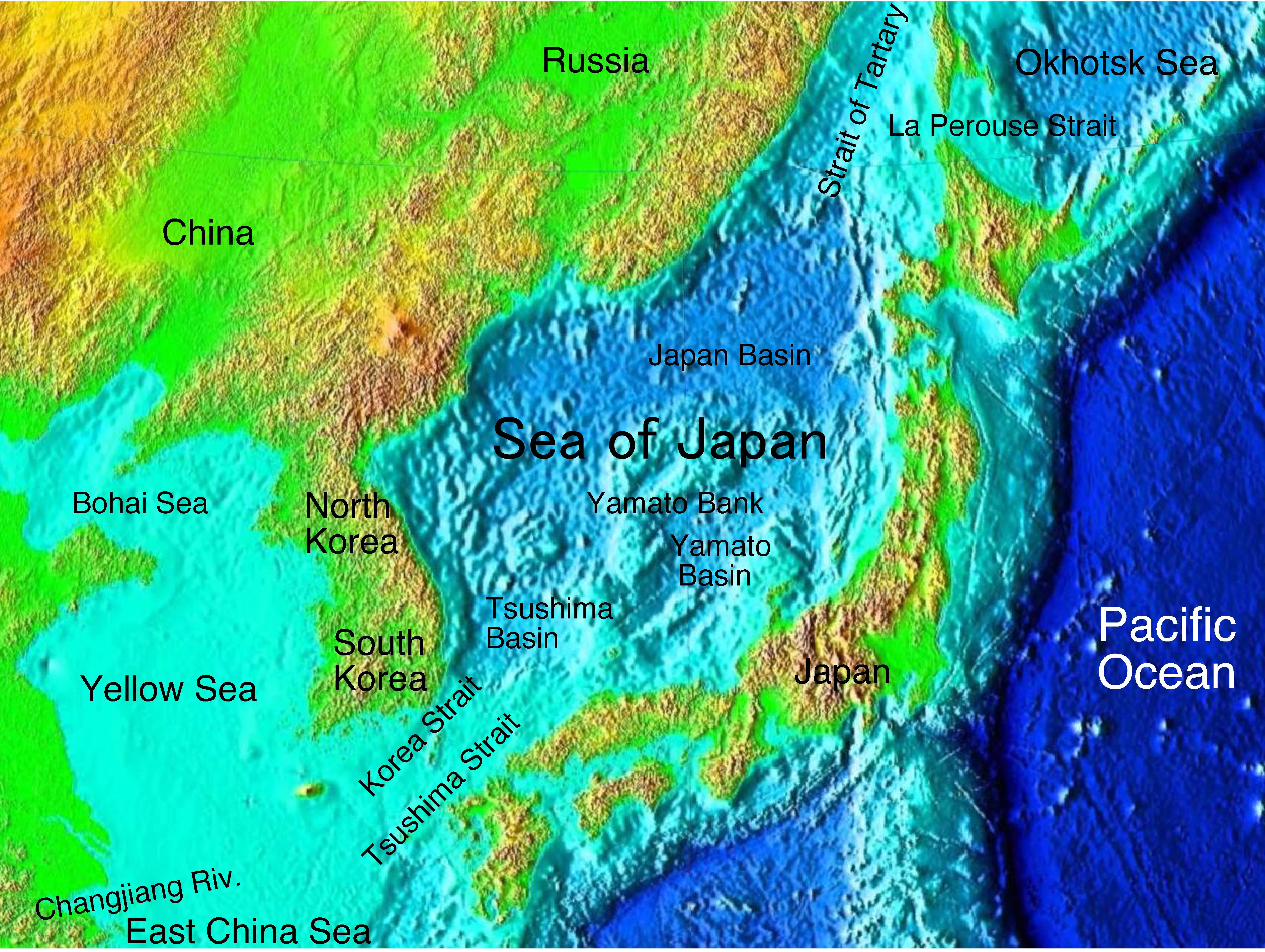 Added names to Sea_of_Japan.jpg (see Source below)